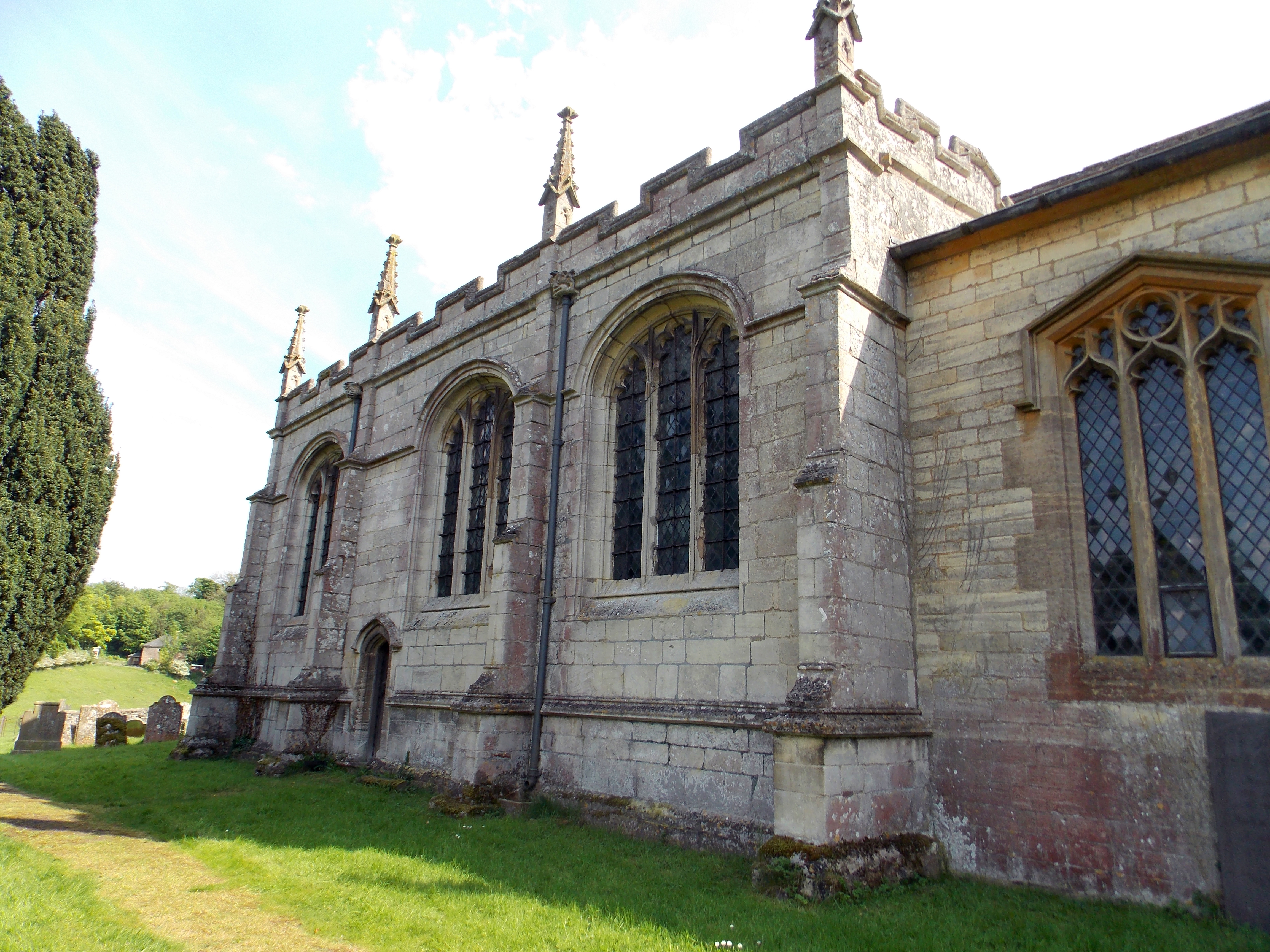 Ss Andrew & Mary, Stoke Rochford, exterior - north chapel from north-west